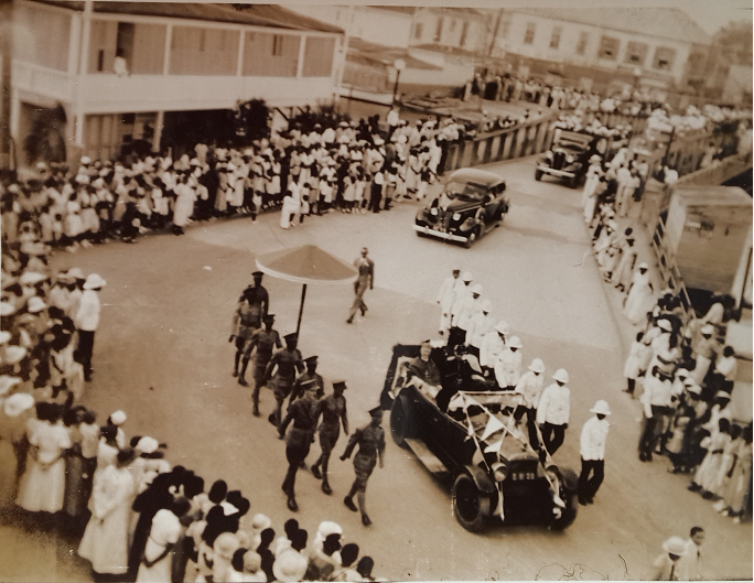 Bishop Murphy's Jubilee parade in Belize in 1938